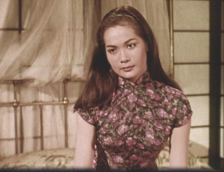 Nancy Kwan's screen test in the 1960 film The World of Suzie Wong